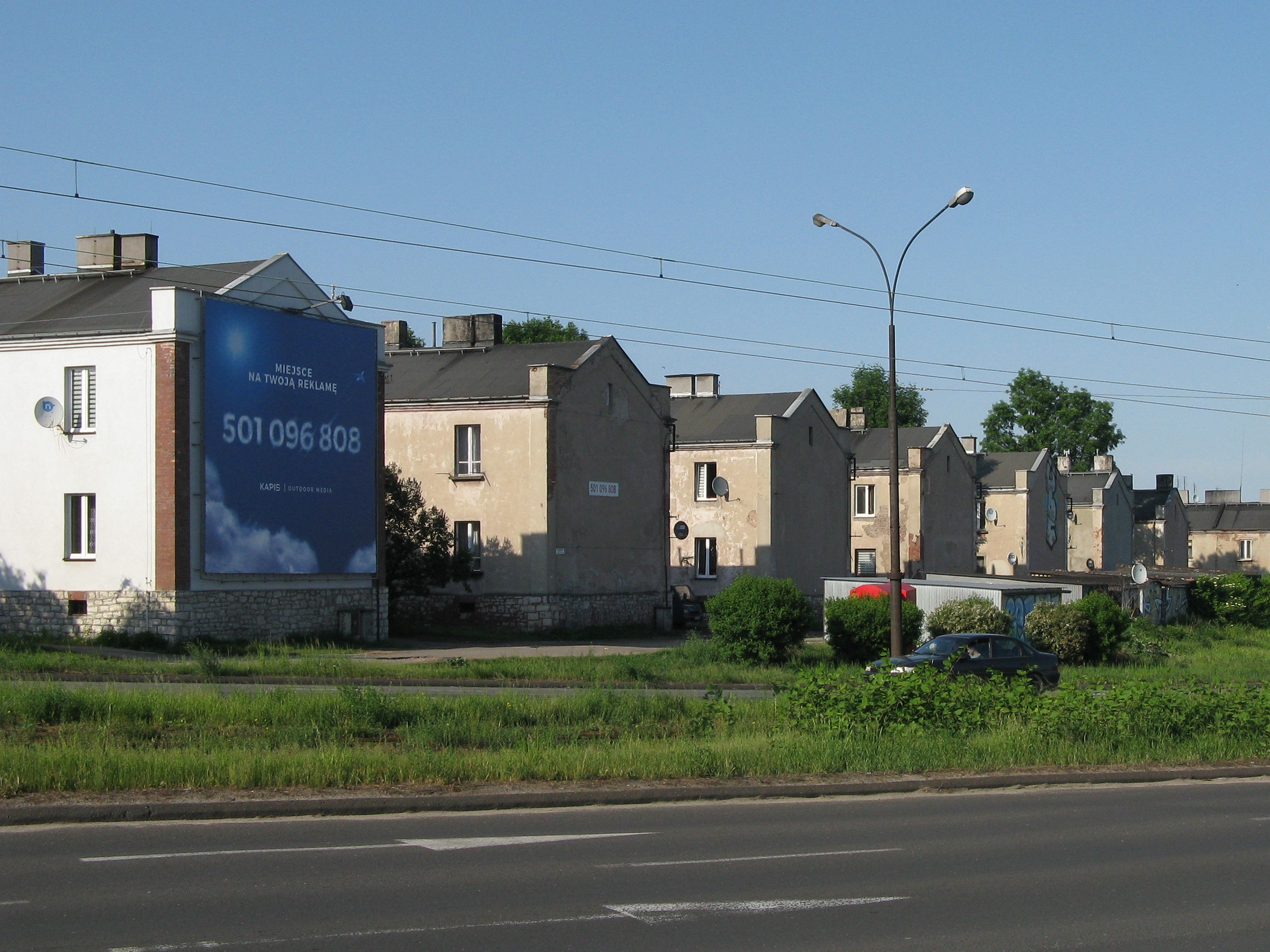 The houses at Koszelew street in Będzin-Ksawera, Poland.